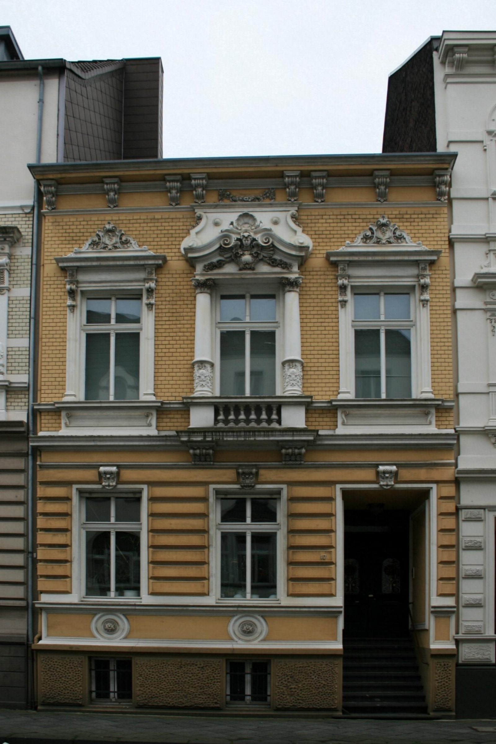 Cultural heritage monument No. St 005 in Mönchengladbach